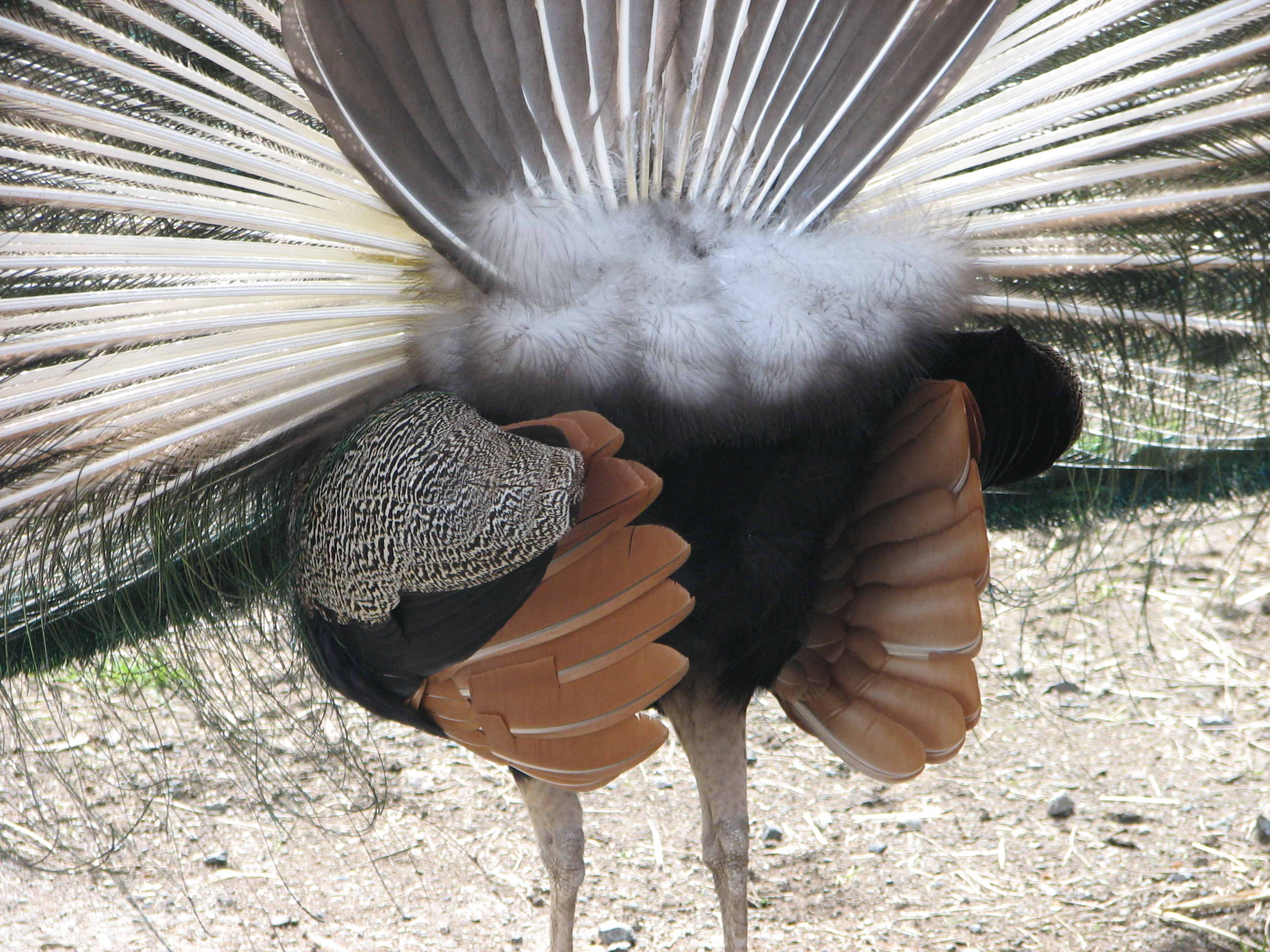 Back side of a male peacock (Pavo cristatus), Ardenwood Historic Farm, Fremont, California, US. – Yes, a close up to show the back feathers are nearly as elegant as the front feathers! Look at that fluffy down- it would be like sitting on a pillow!